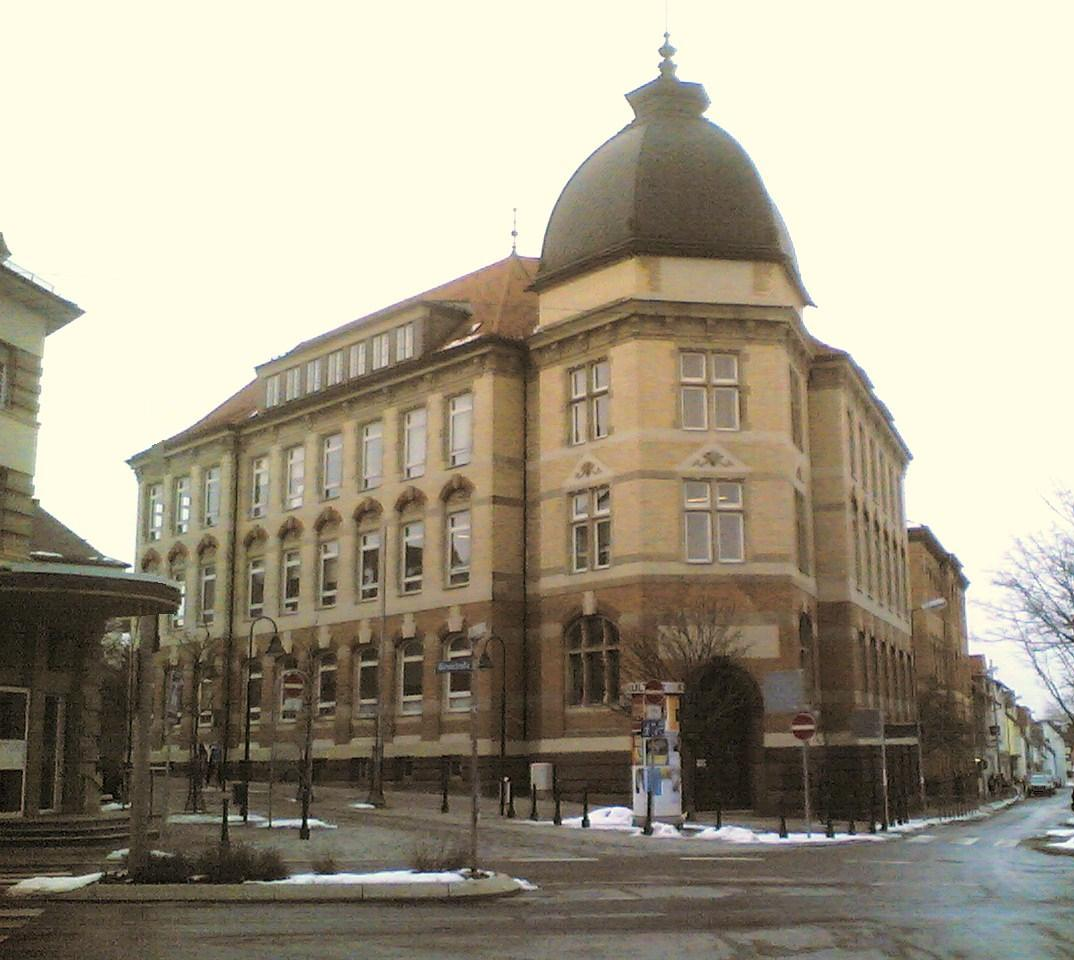 Janusz-Korczak-School, Villingen-Schwenningen, Germany